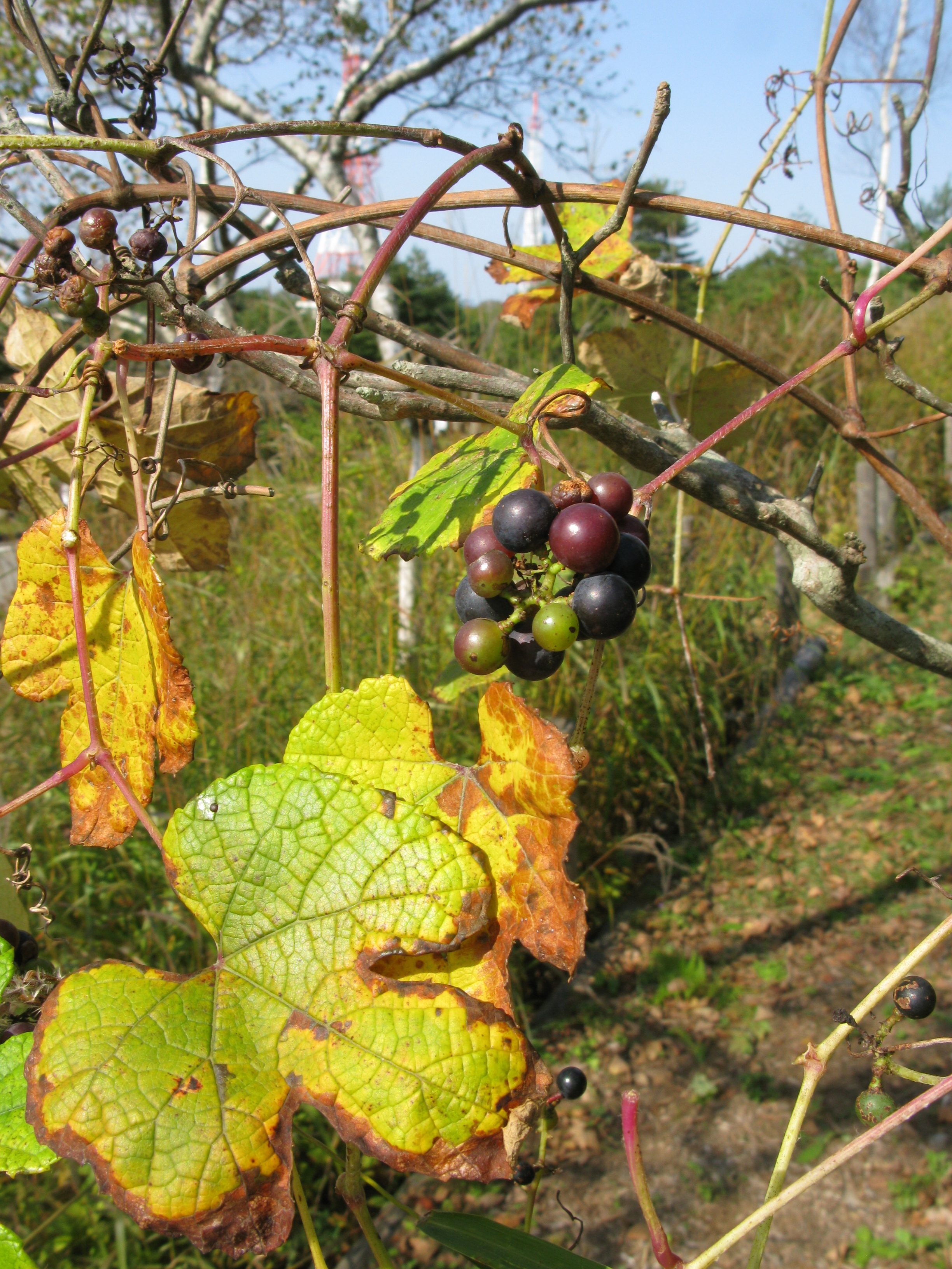 Vitis ficifolia ,Aizu area, Fukushima pref., Japan